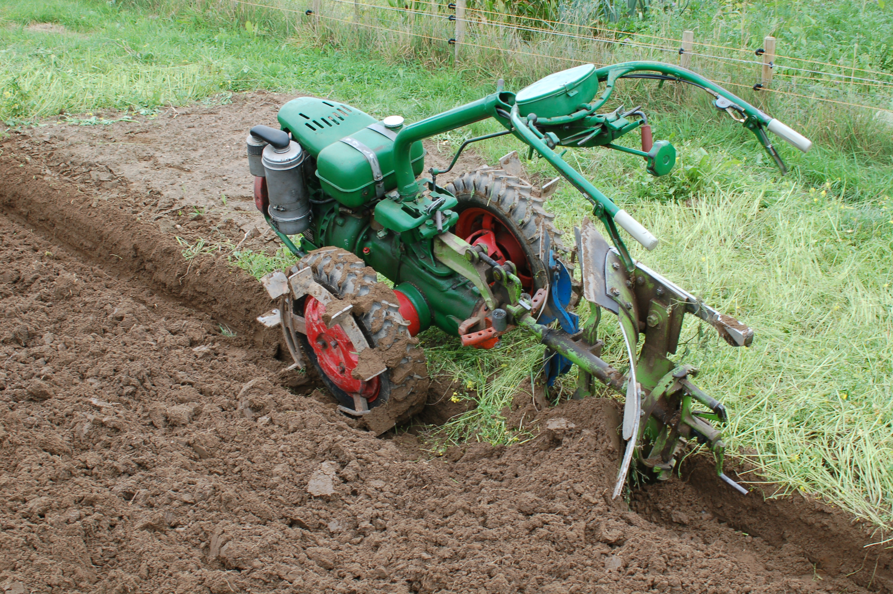 Two wheel tractor Agria Type 1700 Diesel with Hatz E 79 Engine (8 hp) ploughing